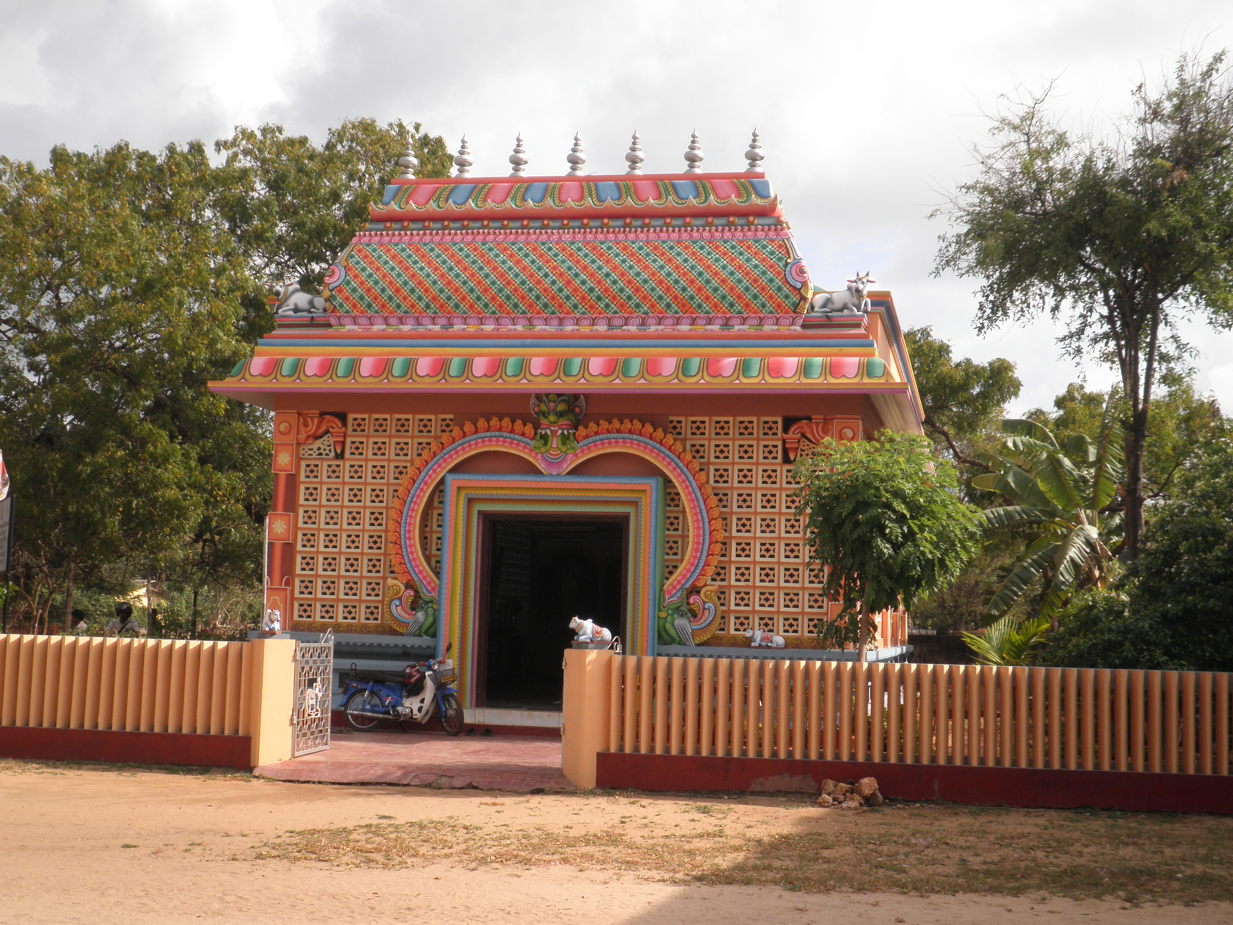 Arumuga Navalar Memorial near Nallur Kandasamy Temple, Jaffna